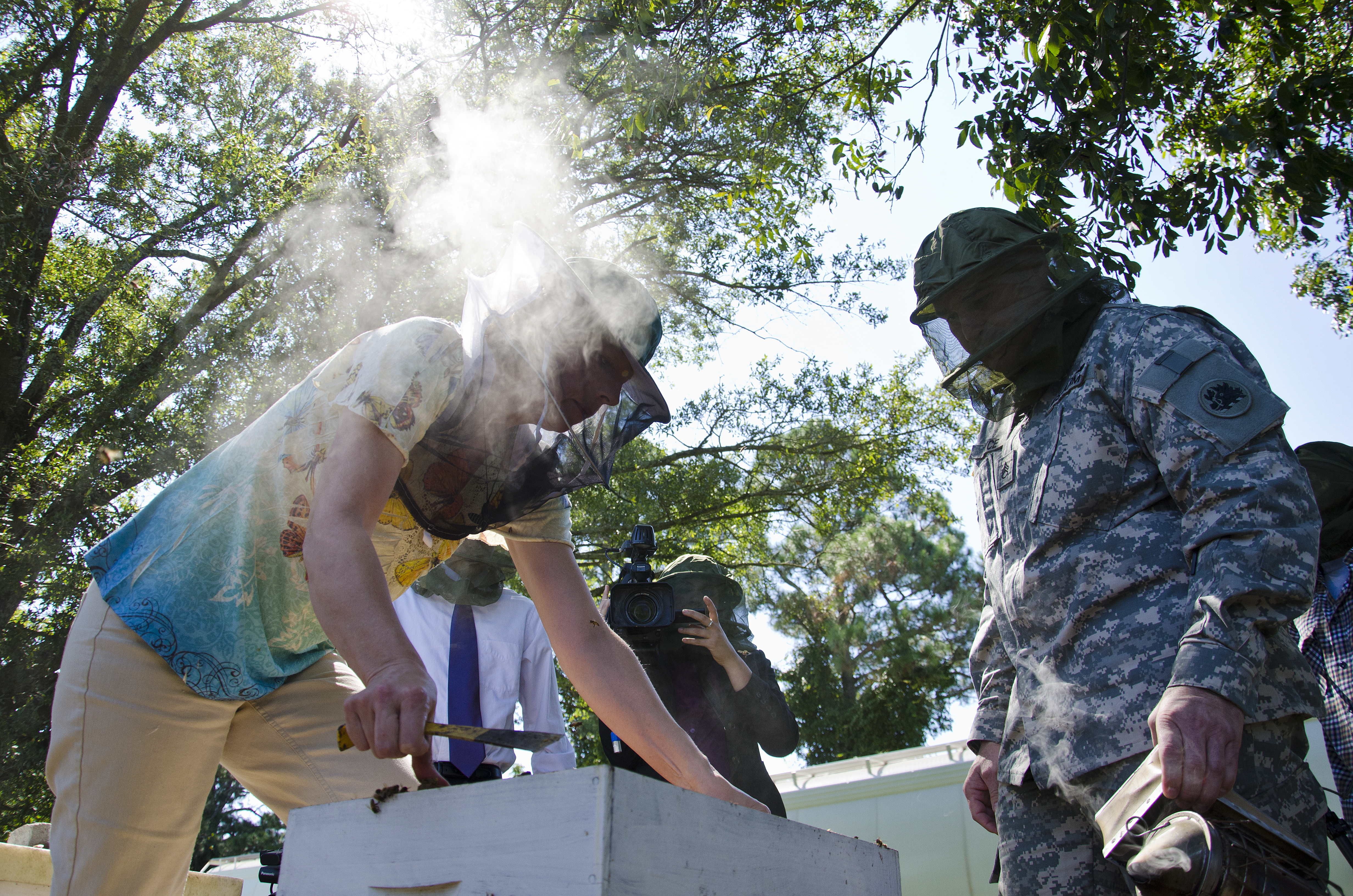 Research professional and manager of the honey bee lab at the University of Georgia, Jennifer Berry demonstrated the proper handling of a beehive during her basic apiculture course with ADT III team member, Staff Sgt. Gregory Byce adding smoke to the beehive. In the background, Albany's WALB-TV filmed for their story on the ADT III future deployment to Afghanistan. Photo by 1st Lt. Michael Thompson, 78th Homeland Response Force, Georgia Army National Guard For full story